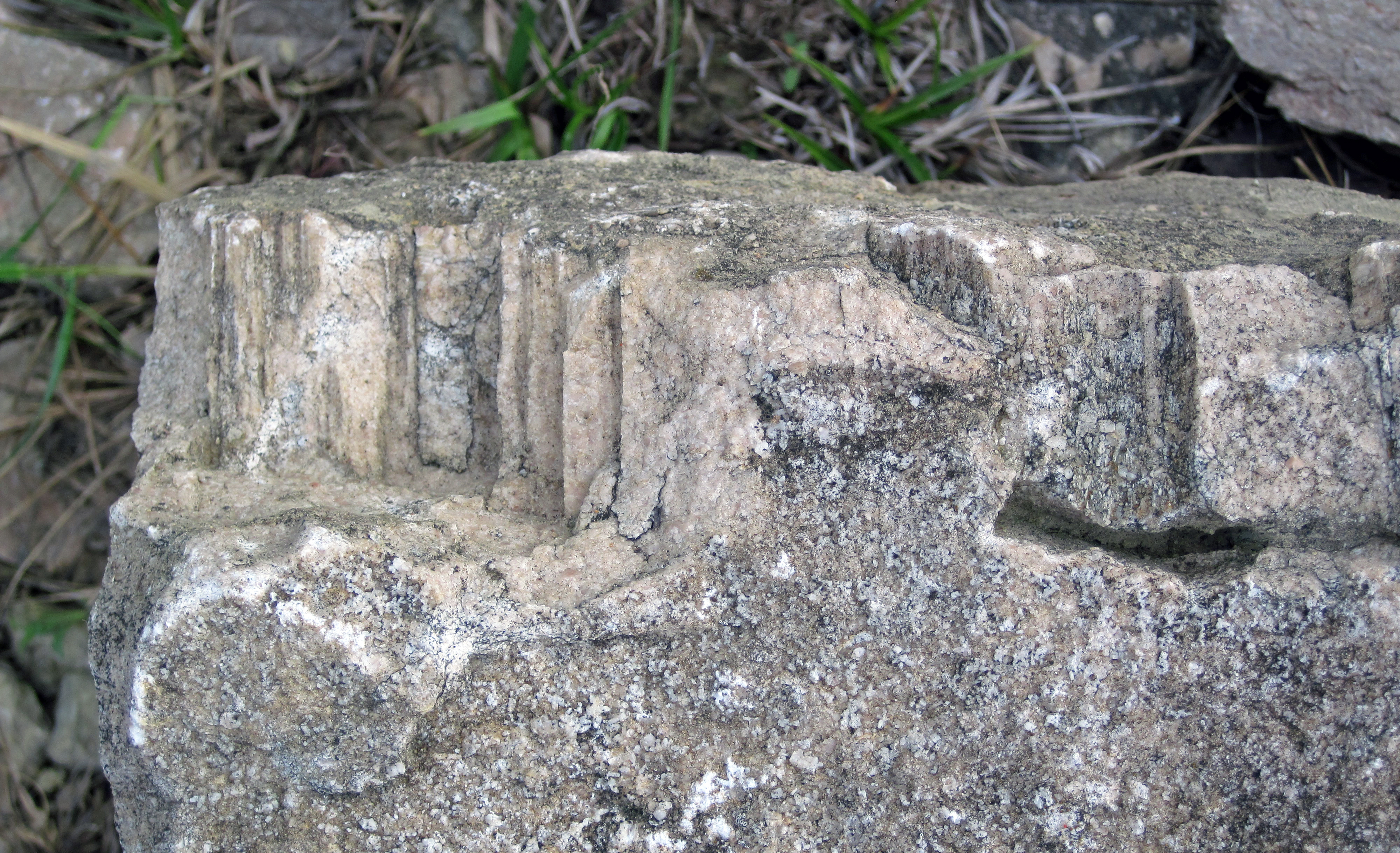 The structure shown above is a stylolite, a pressure dissolution feature that frequently has the appearance of a hospital EKG reading. These occur in many limestones, dolostones, and marbles, especially in or near orogenic belts. The host rock here is limestone, a biogenic sedimentary rock composed of calcite (CaCO3 - calcium carbonate). Most limestones form in ancient, warm, shallow ocean environments. Stratigraphy: Brassfield Formation, Lower Silurian Locality: eastern wall of Oakes Quarry Park, east of the town of Fairborn, northwestern Greene County, western Ohio, USA (39° 48' 47.75" North latitude, 83° 59' 01.50" West longitude)